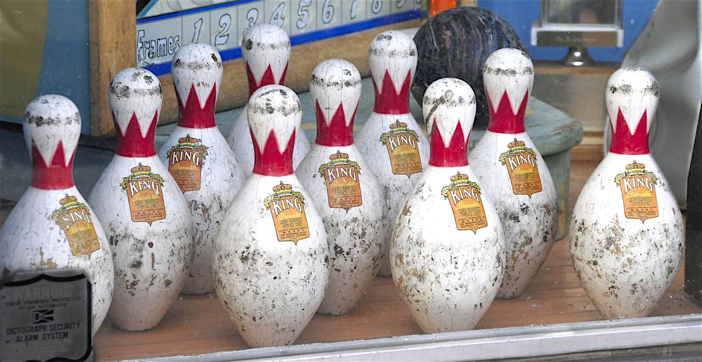 Duckpins are shorter and squatter than the pins used in 10-pin bowling.